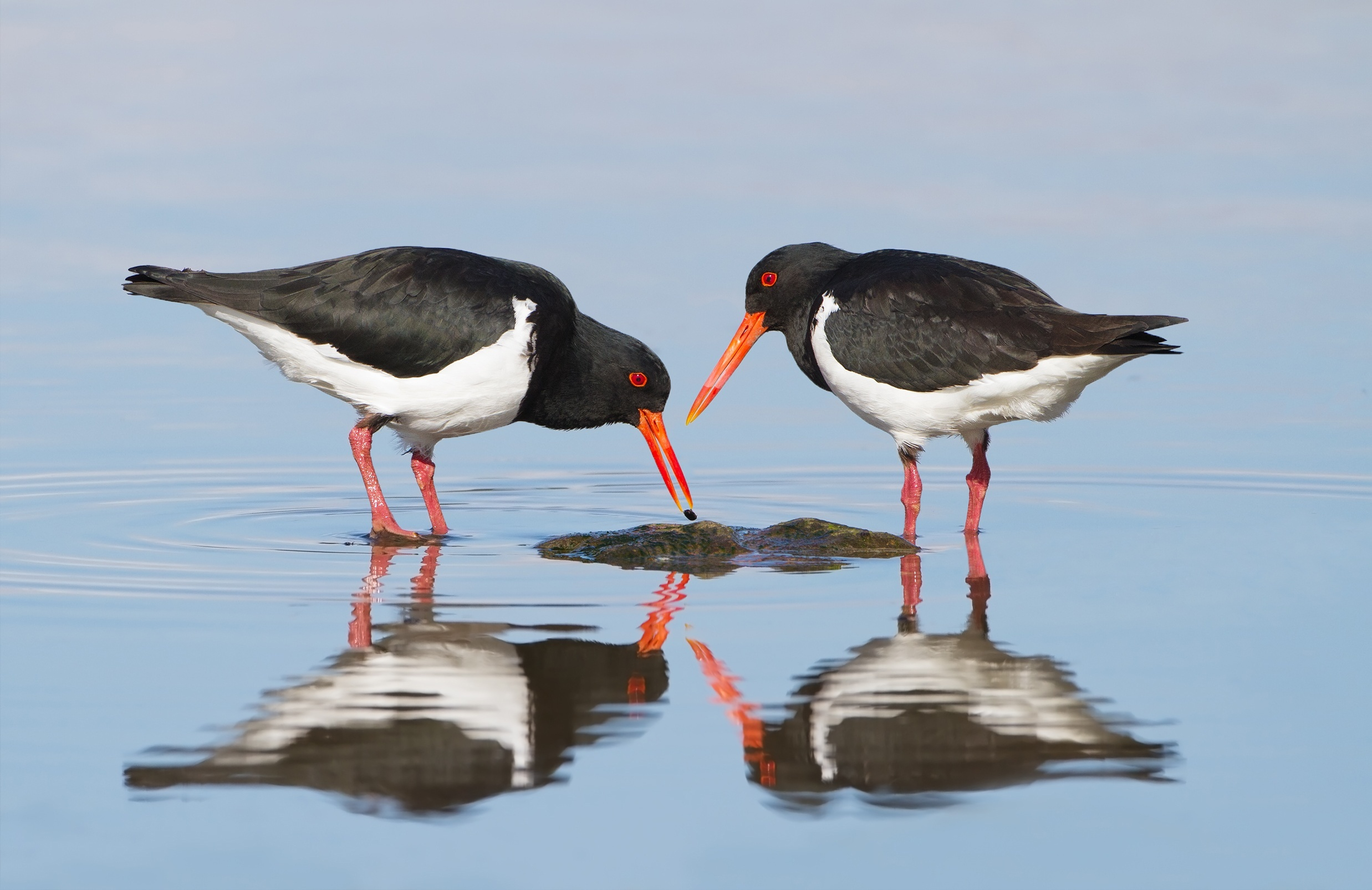 Pied Oystercatchers, Austin's Ferry, Hobart, Tasmania, Australia.